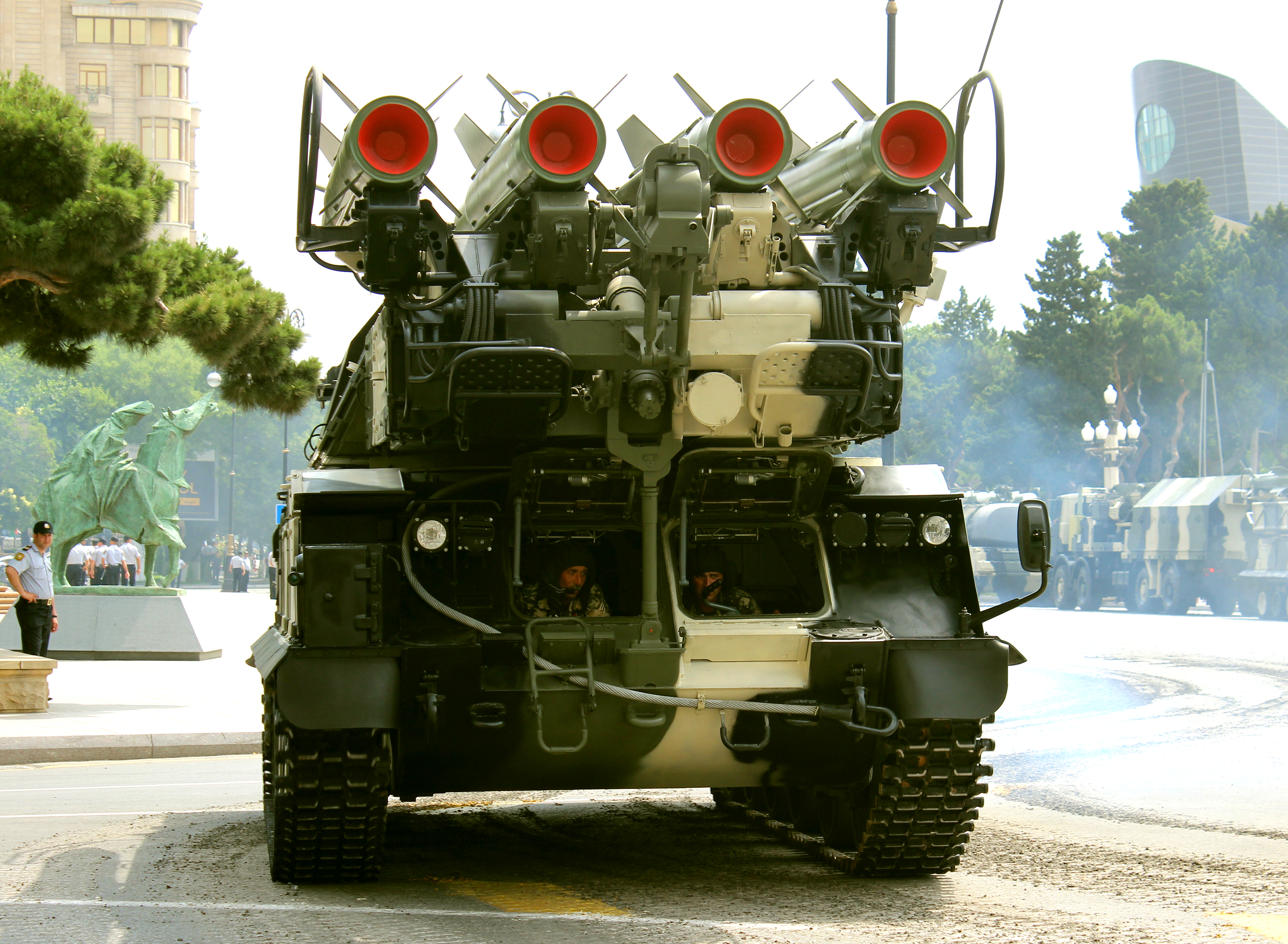 Military parade in Baku 2013